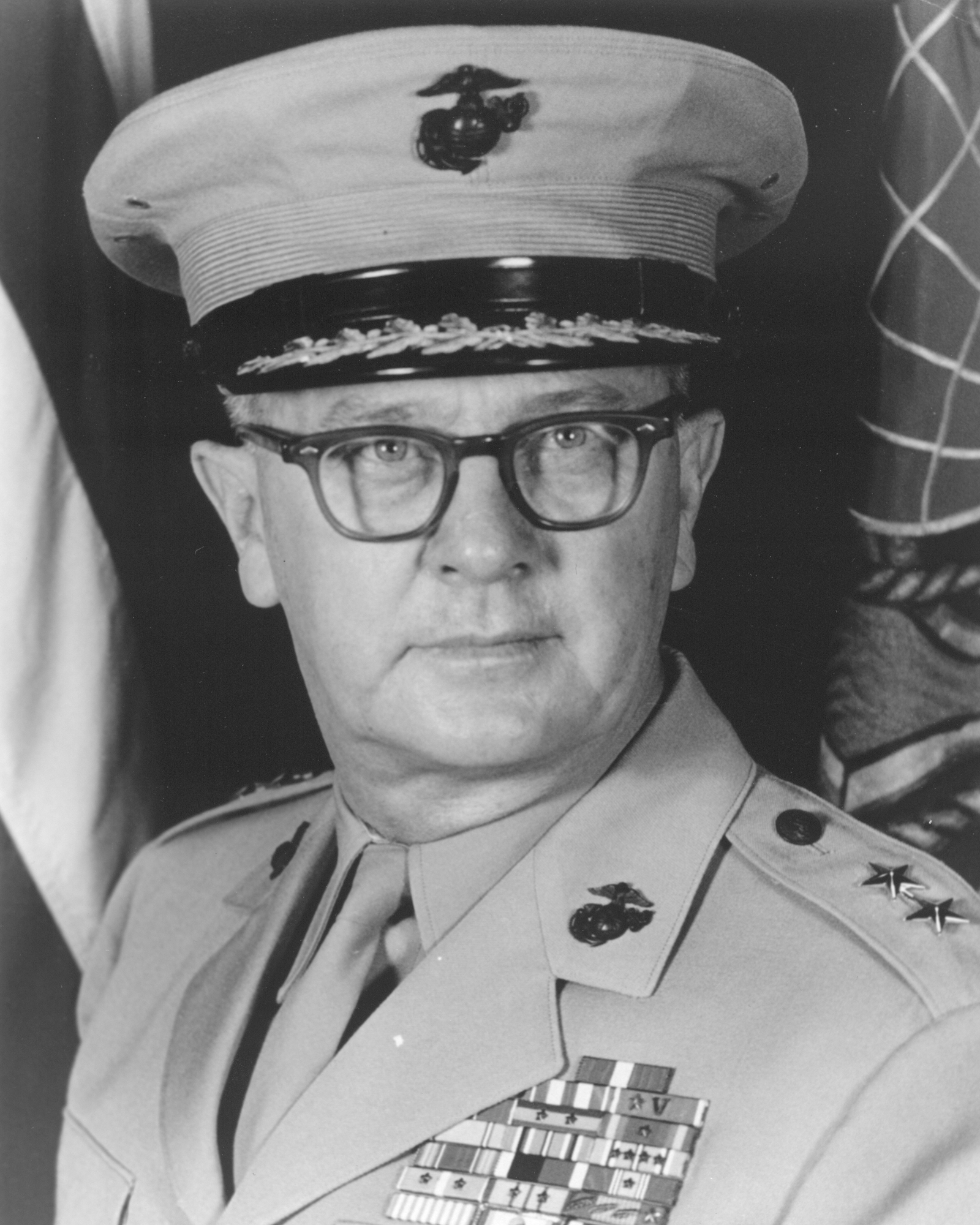 Oscar Franklin Peatross (March 2, 1916 – May 26, 1993) was a highly decorated officer of th United States Marine Corps with the rank of major general who served as Marine Raider in World War II and was awarded the Navy Cross for extraordinary heroism on August 17–18, 1942. He also served in the Korean War and the Vietnam War.